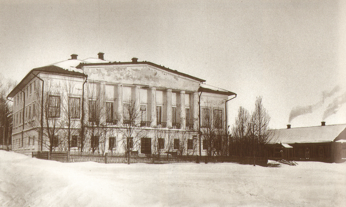 Native house of Leo Tolstoy